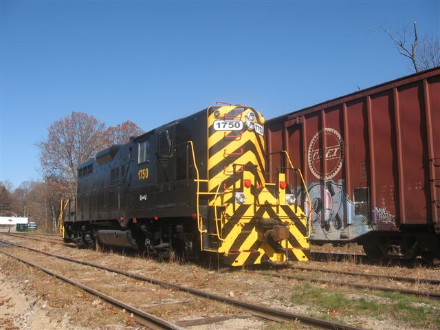 Grafton & Upton GP7 #1750 in 2009